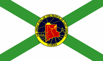 The official flag of Clay County, Florida.